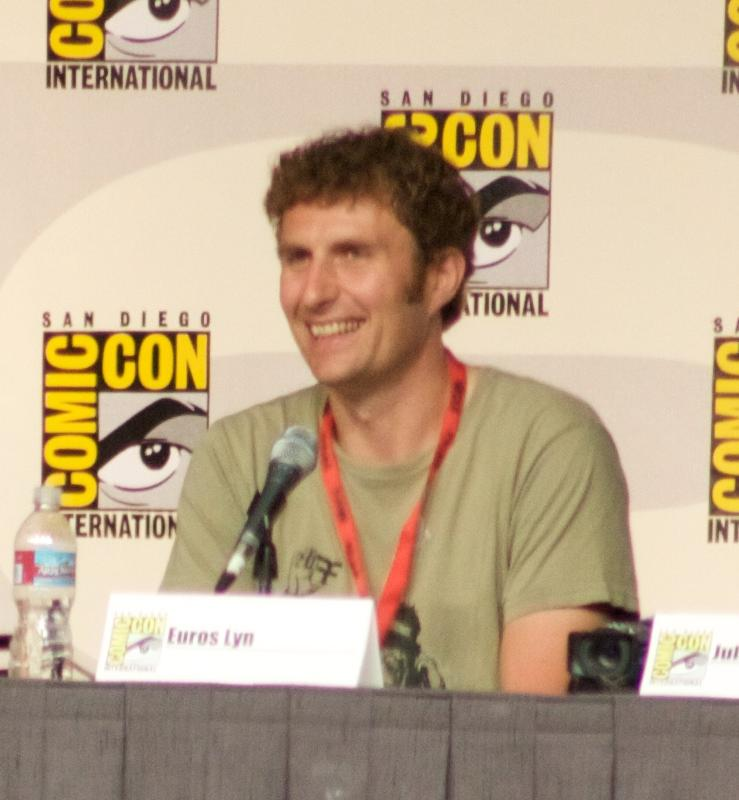 Director Euros Lyn – 2009 Comic-Con International – "Doctor Who" panel.